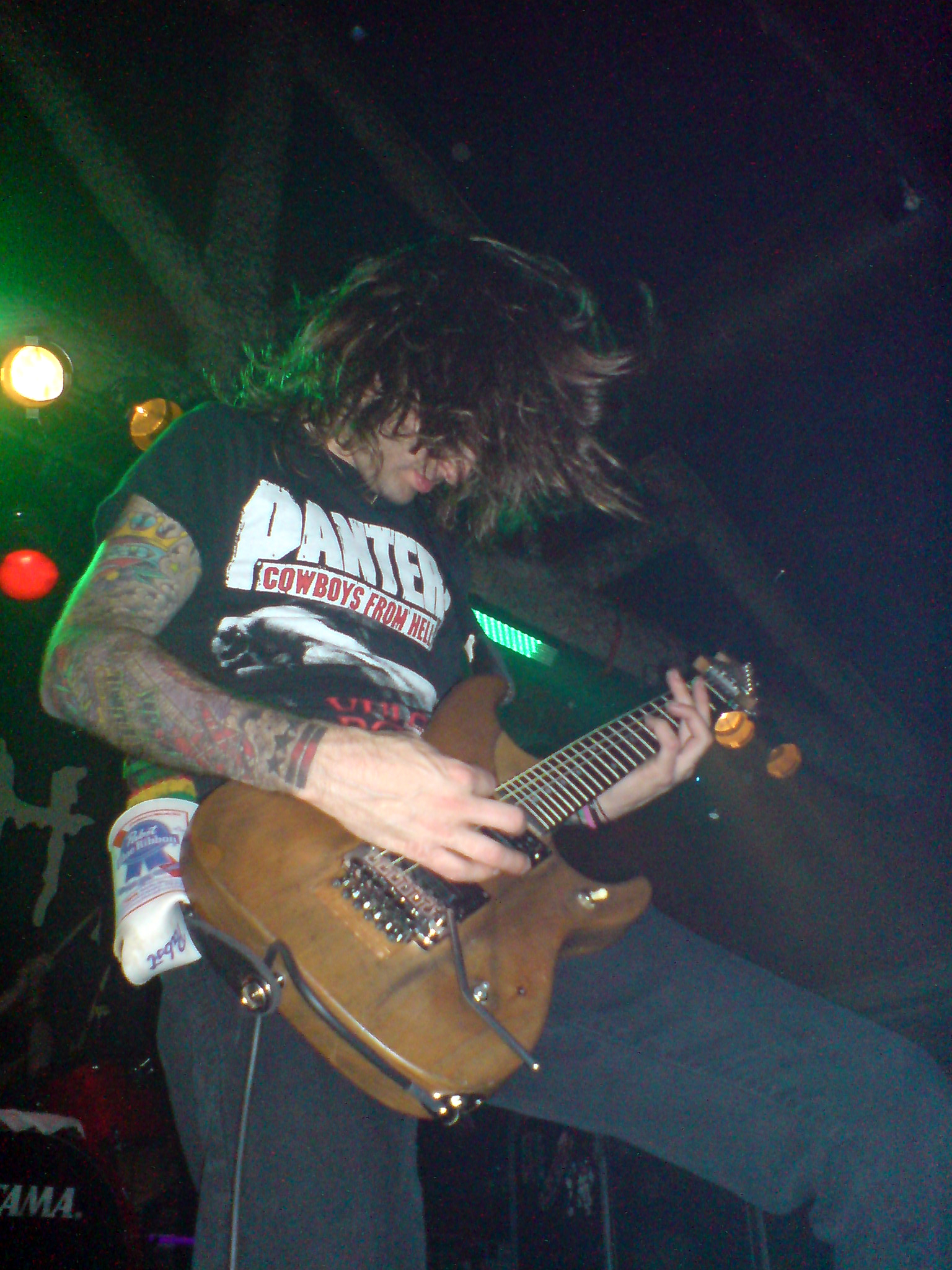 Mike Schleibaum during a Darkest Hour concert in Barcelona on May 6, 2009